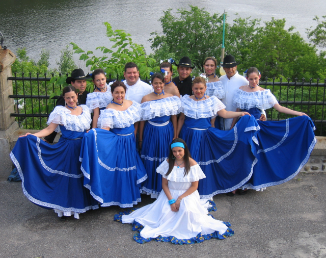 Performers at Ottawa's Carnival of Culture